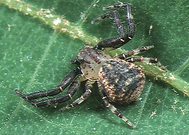 female Takachihoa truciformis from Okinawa.